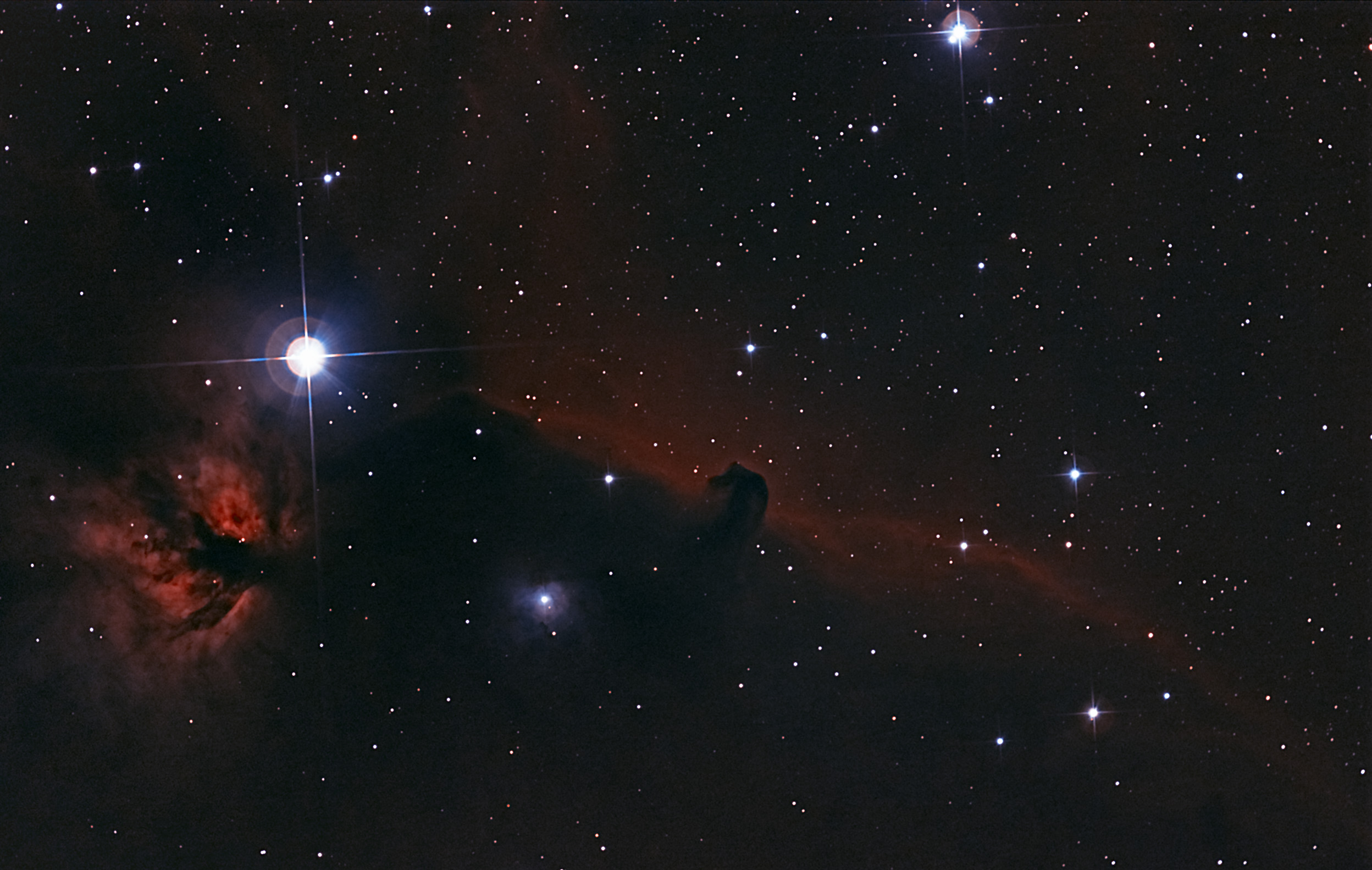 Amateur photograph of the Horsehead nebula taken with a Nikon D300 DSLR Camera.